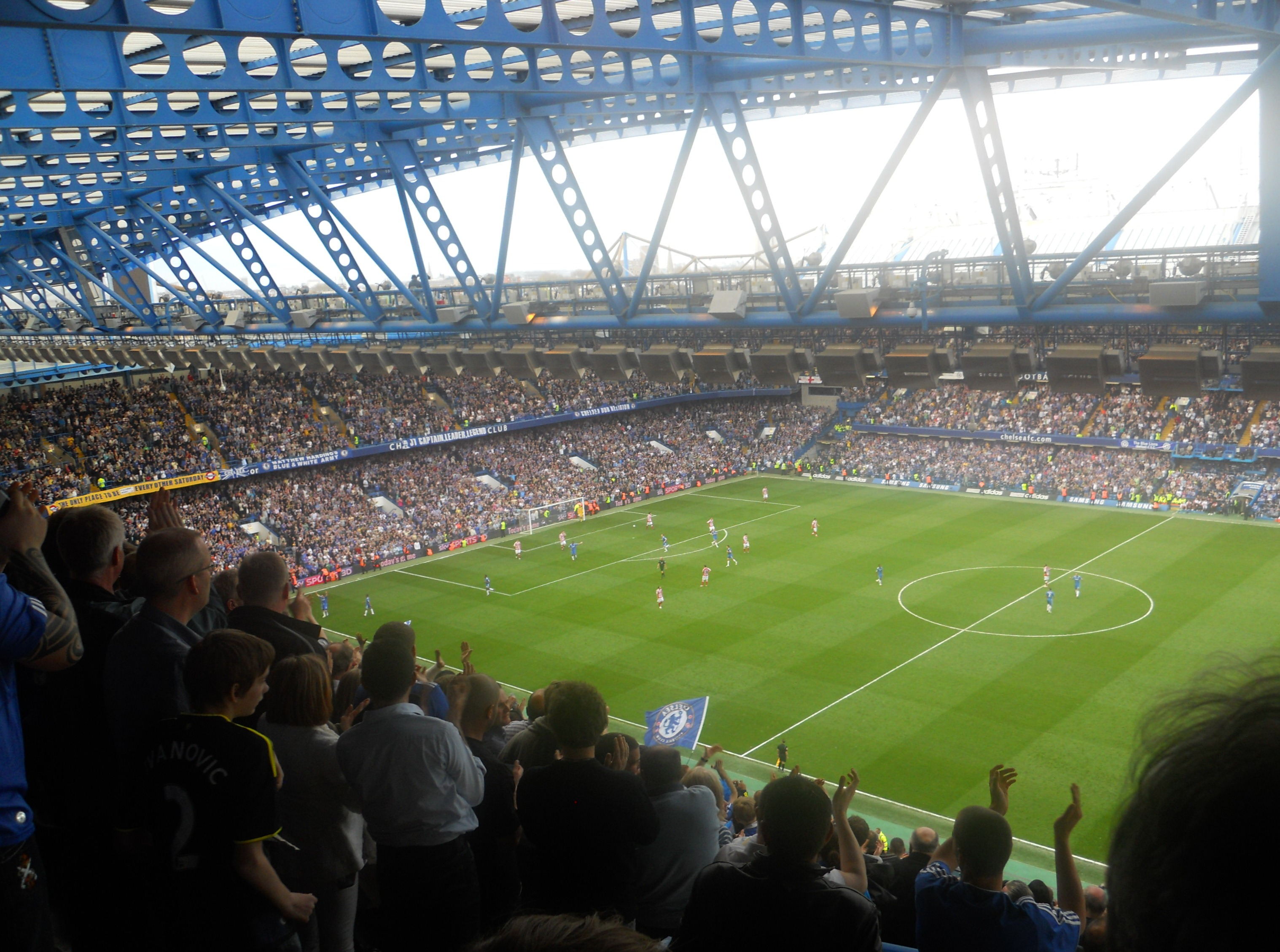 Chelsea F.C.